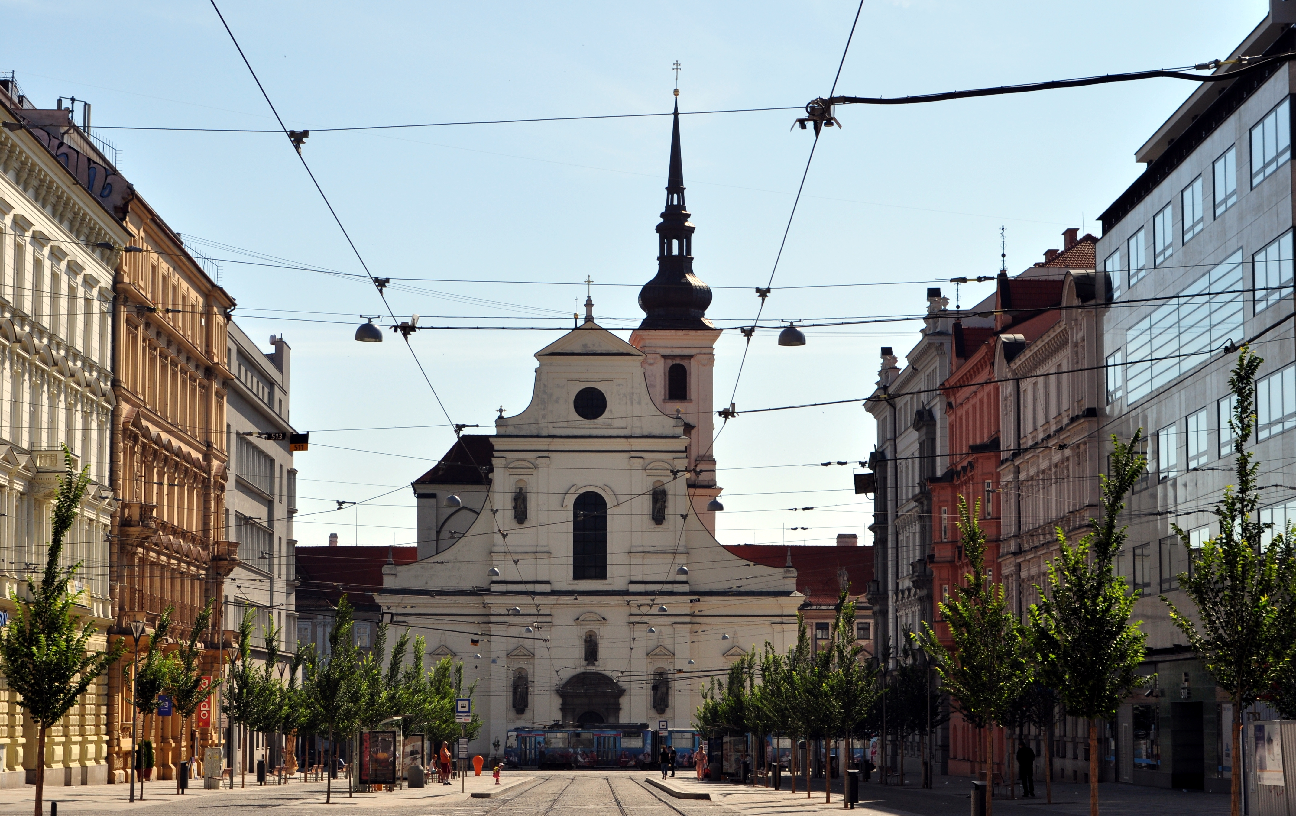 Joštova street and Church of Saint Thomas and the Annunciation on Moravian square in Brno, Moravia, Czech Republic.